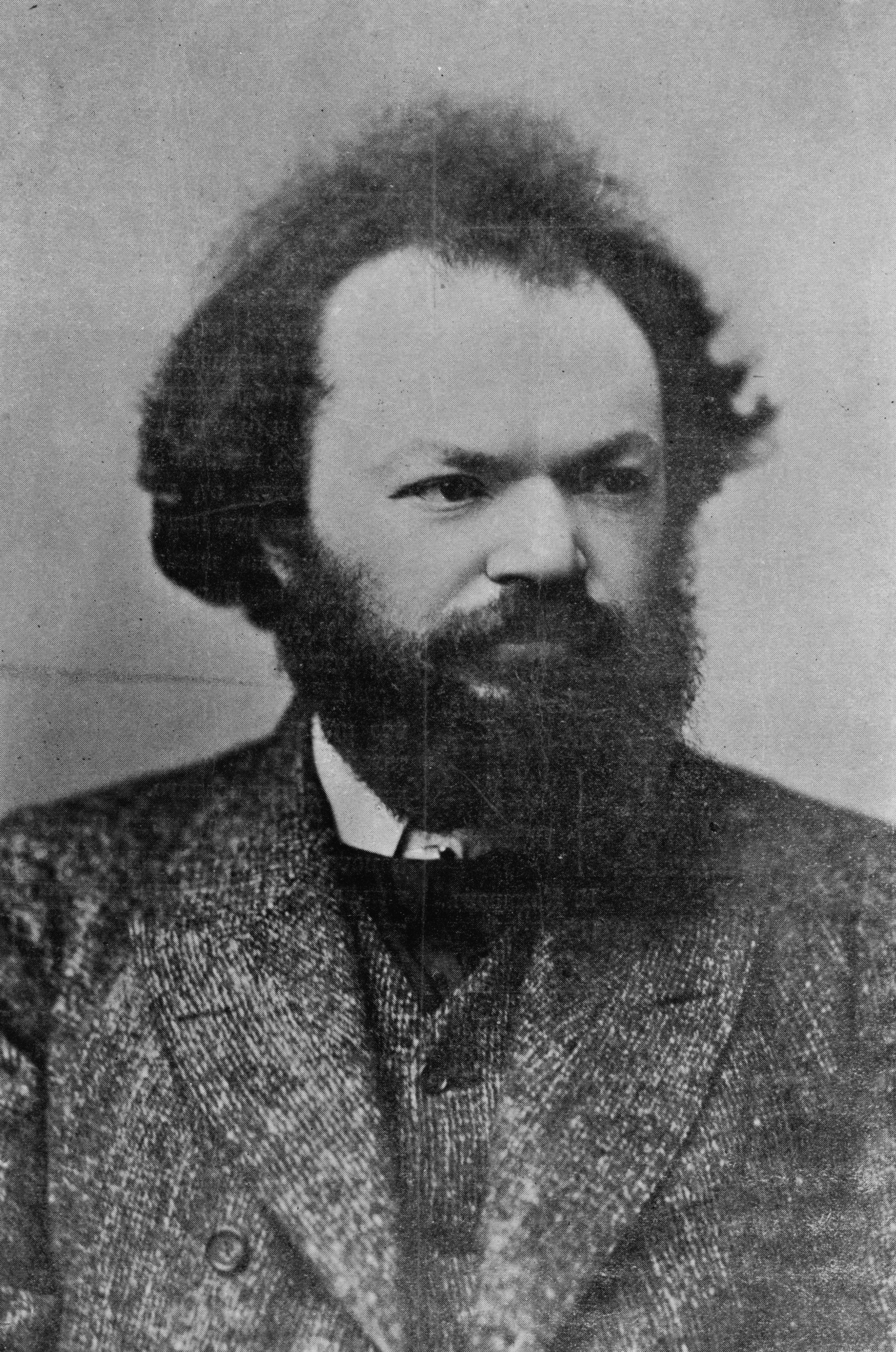 Russian revolutionary and assassin Sergei Kravchinski (1852-1895)